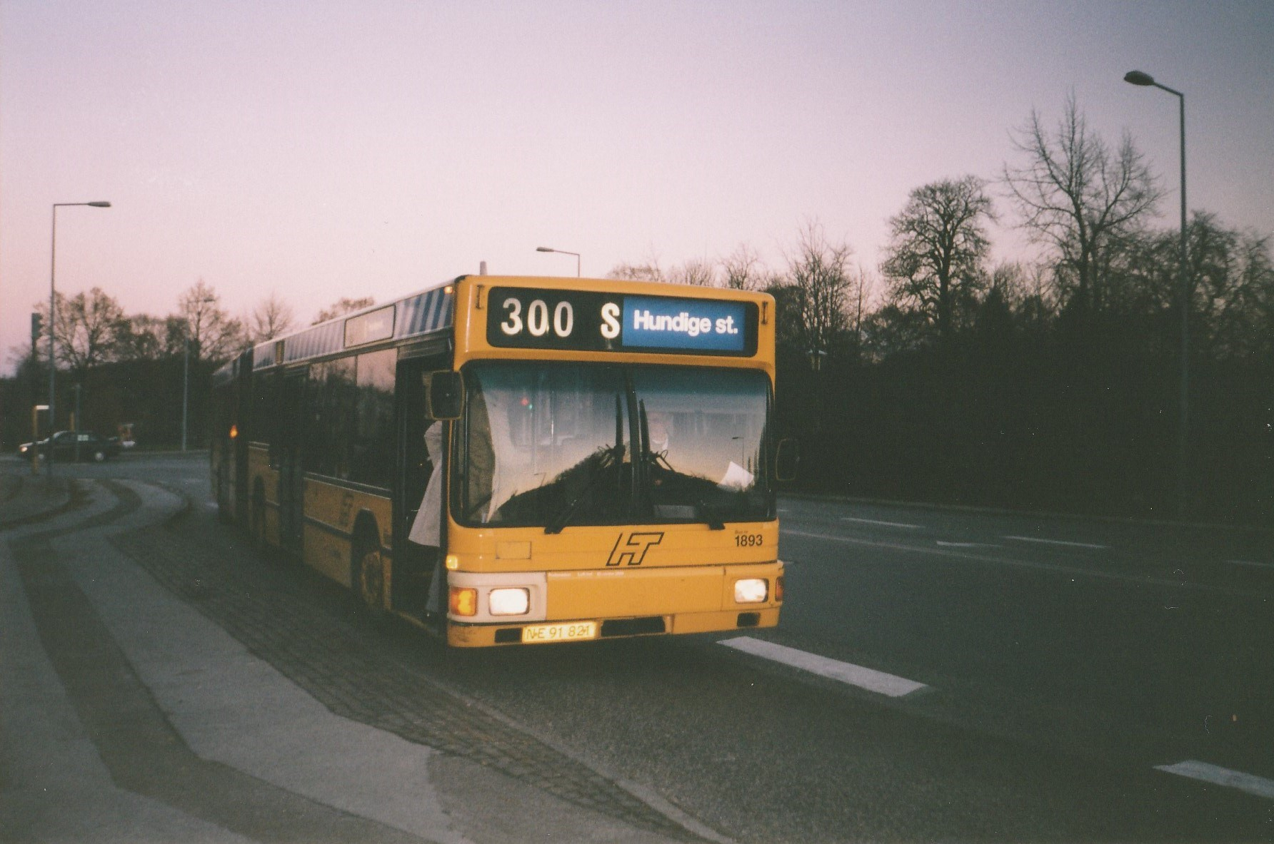 Arriva bus 1893 as HT bus line 300S in on Rungstedvej at Hovedgaden in Hørsholm in Denmark.